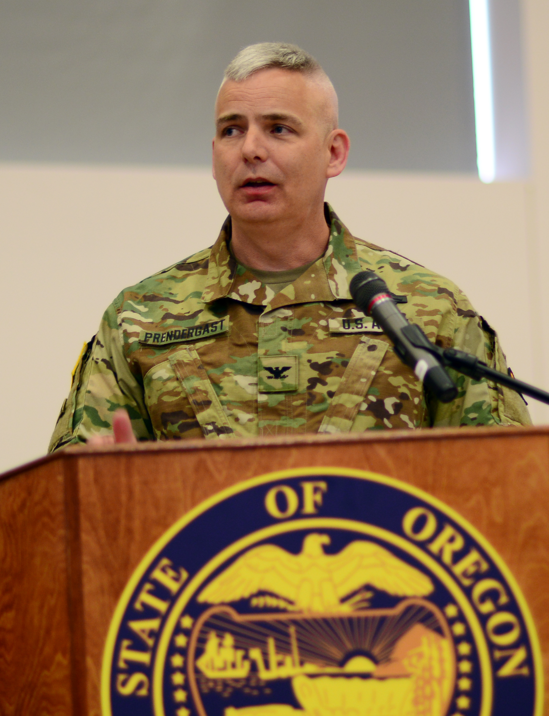 Oregon Army National Guard Col. (promotable) William J. Prendergast IV, commander of the 41st Infantry Brigade Combat Team, addresses the audience during the 41st Division Centennial Anniversary ceremony, April 1, 2017, at the 41st Infantry Division Armed Forces Reserve Center at Camp Withycombe in Clackamas, Oregon. The ceremony honored the 41st Division's 100-year history and generations of service from World War I to the Soldiers of the 41st Infantry Brigade Combat Team today. (Photo by Sgt. 1st Class April Davis, Oregon Military Department Public Affairs)